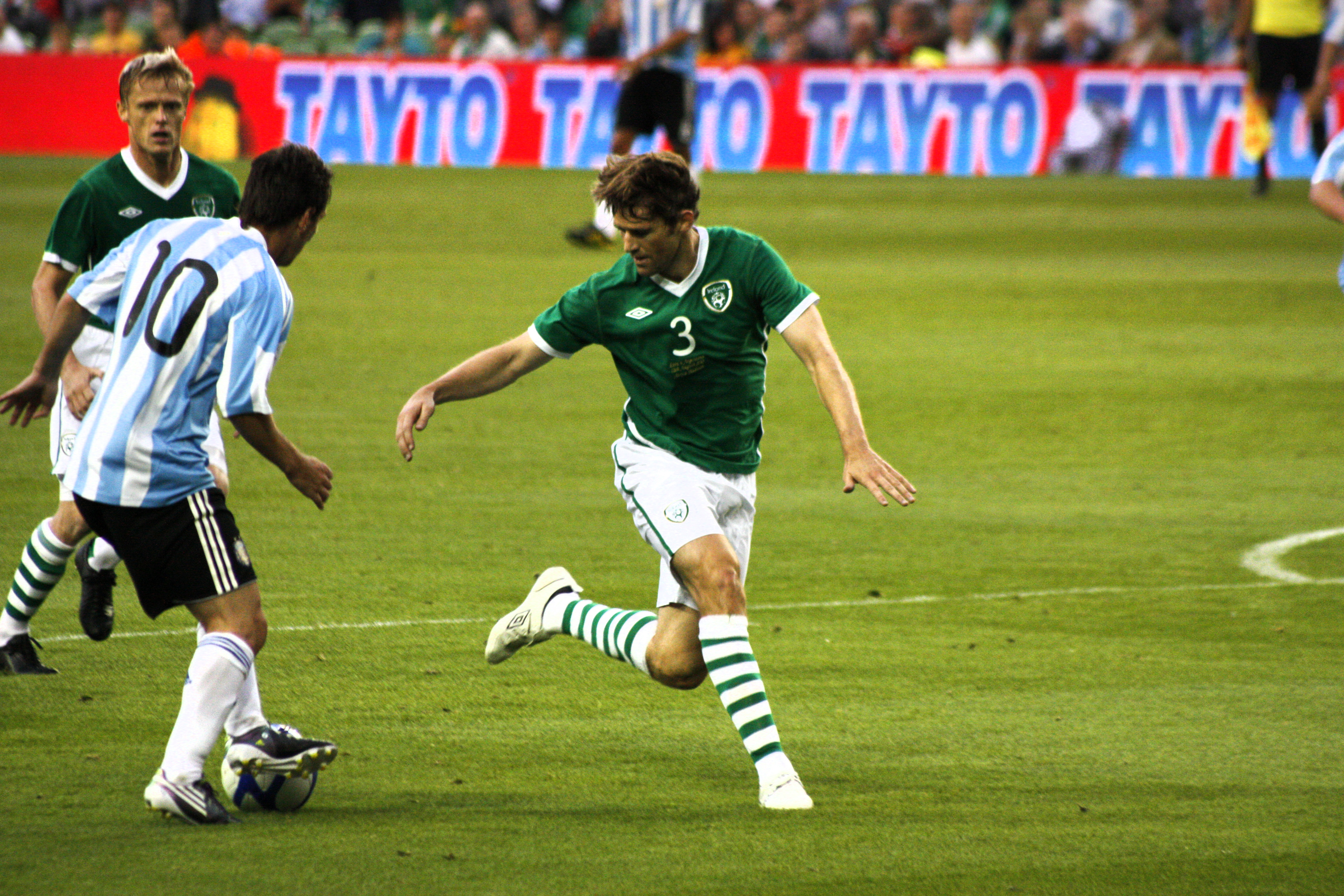 Kevin Kilbane of the Republic of Ireland defending against Lionel Messi of Argentina. Damien Duff in the background.